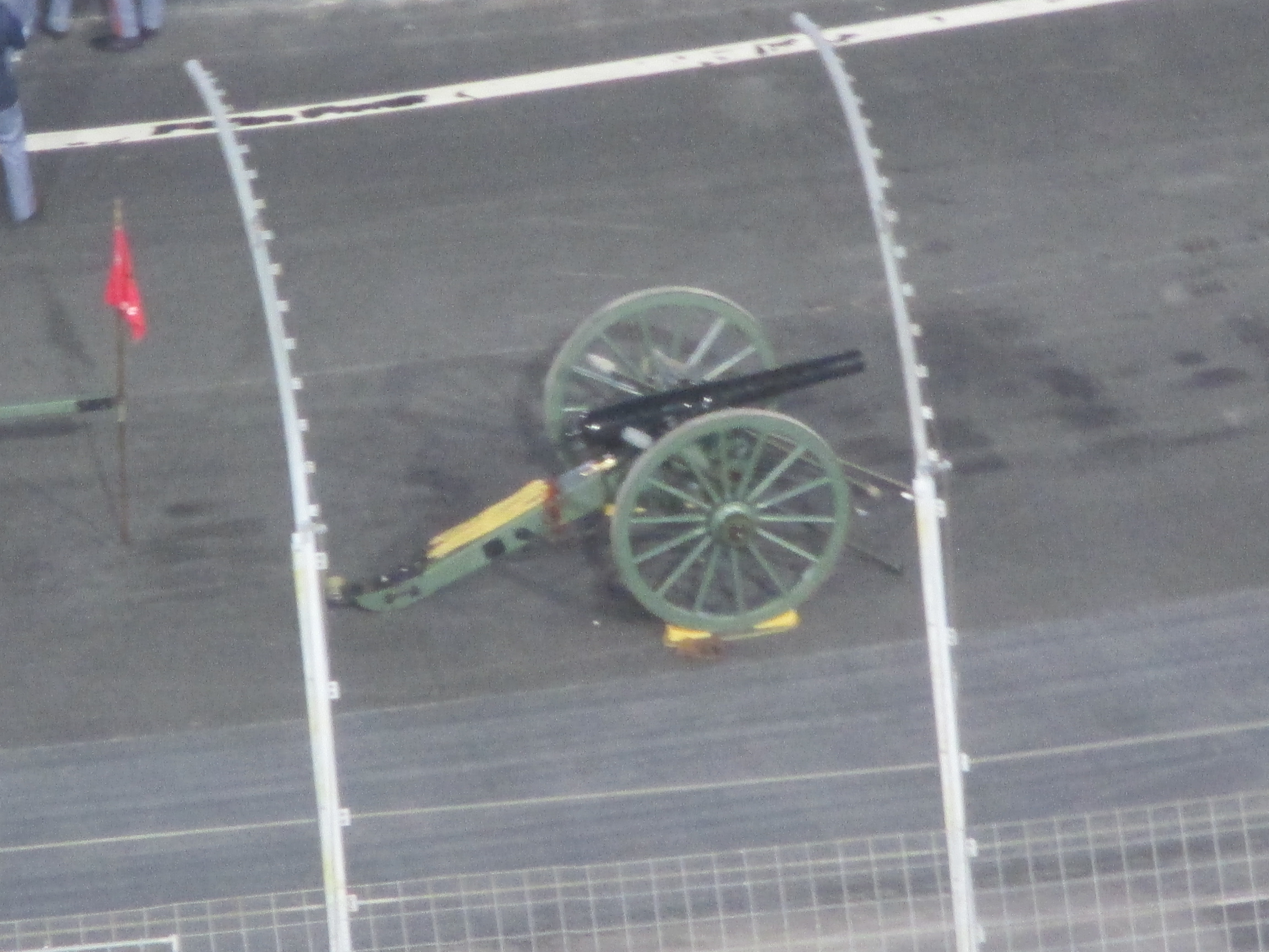 Skipper at the Battle at Bristol September 10, 2016